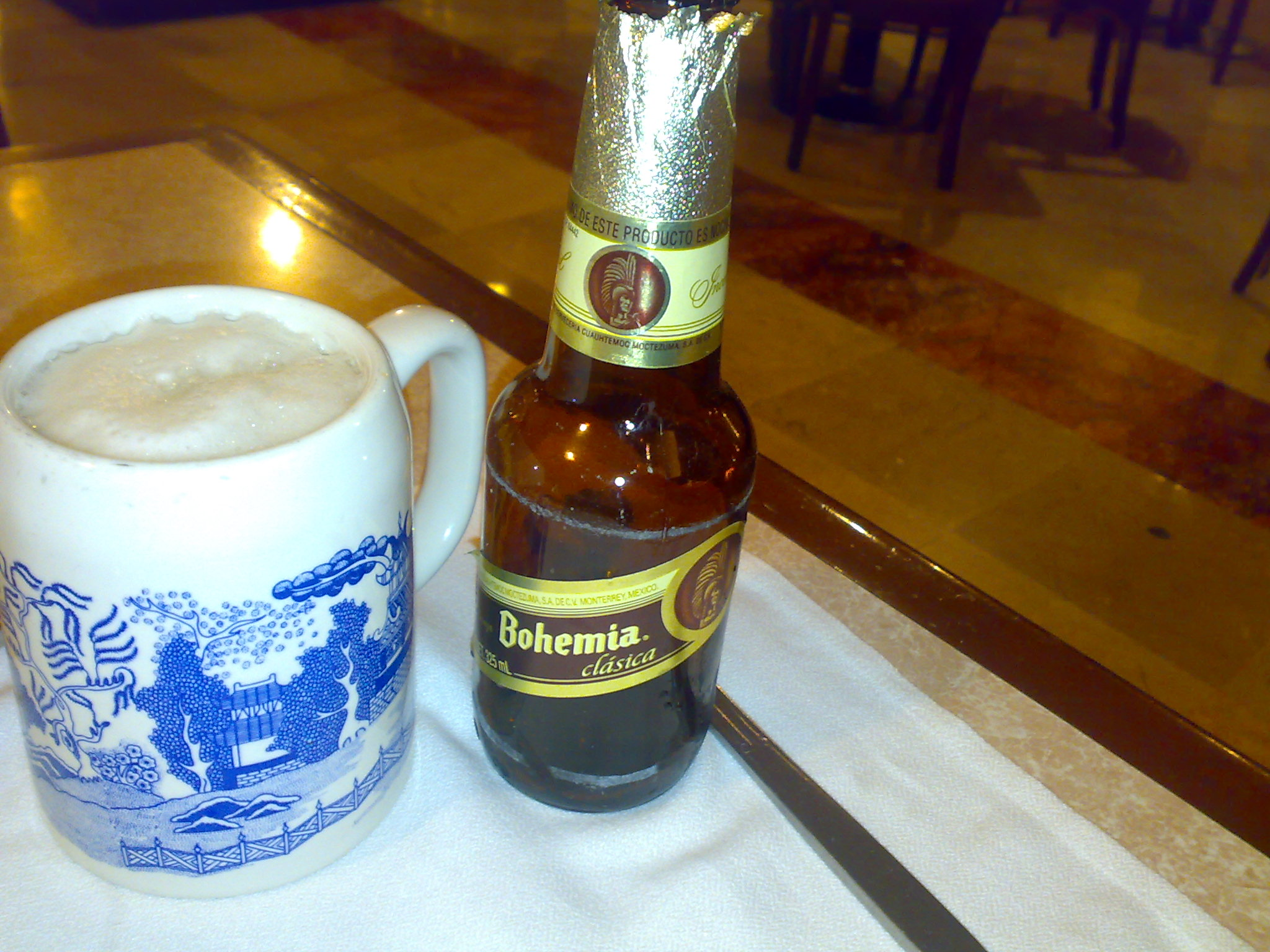 Bohemia clasic beer. Picture taken by me.